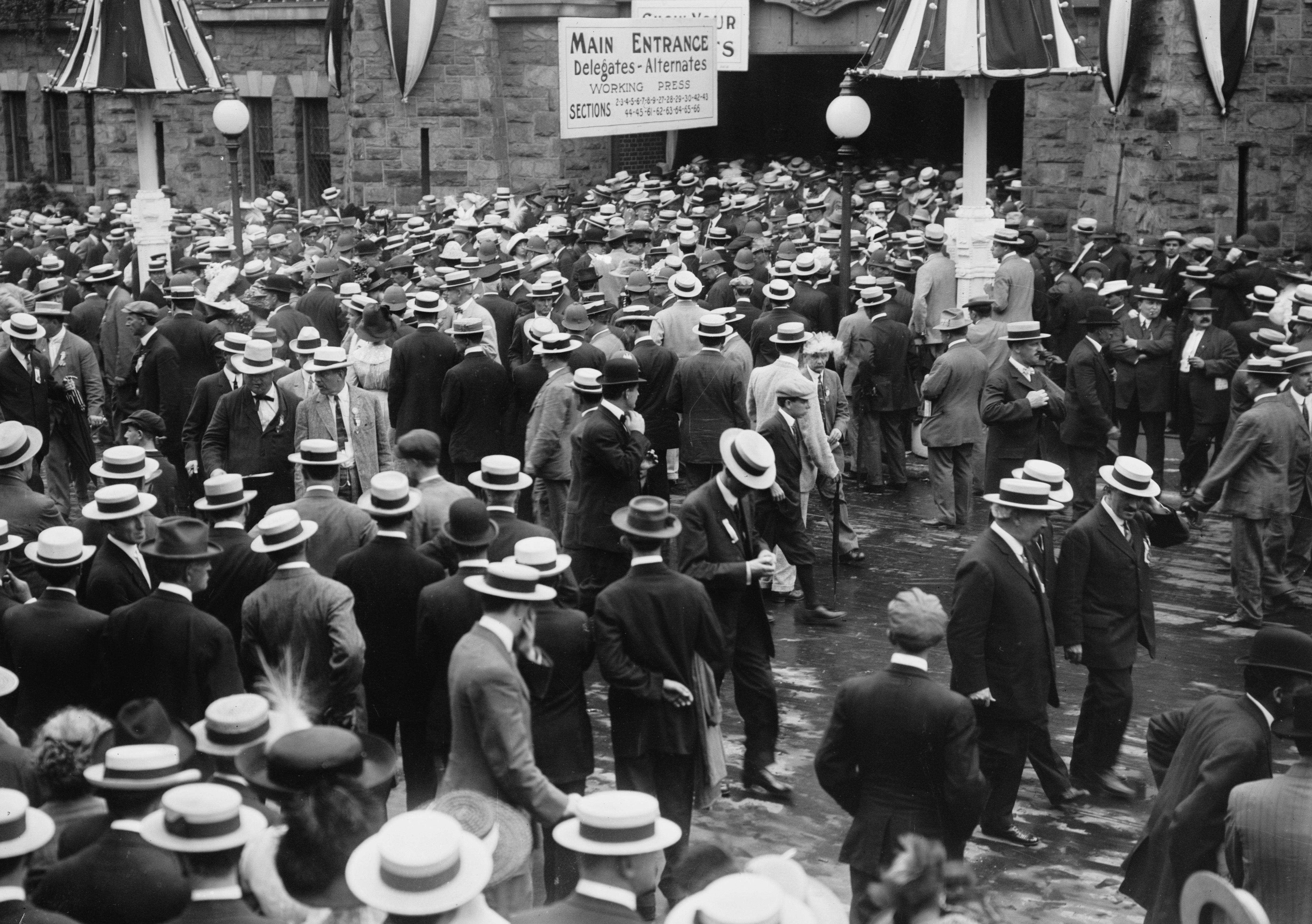 Photo taken at the 1912 Democratic National Convention held at the Fifth Regiment Armory, Baltimore, Maryland, June 25-July 2.